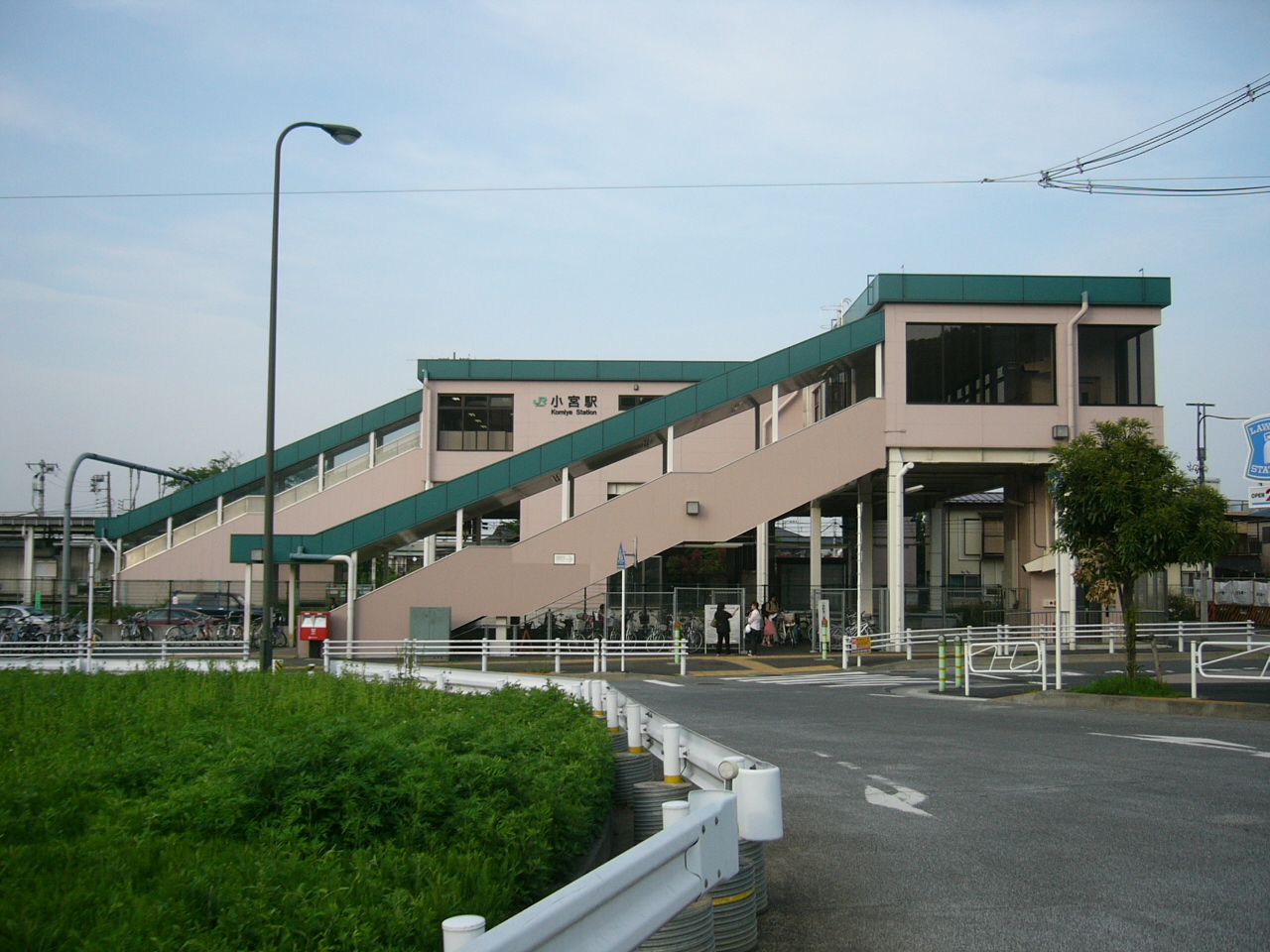 Komiya Station (South Entrance)